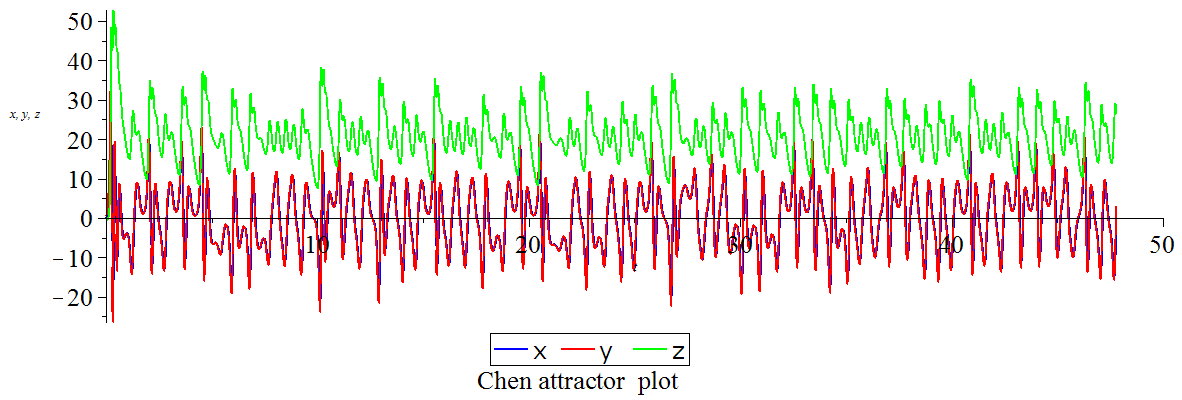 Chen chaos attractor plot